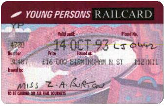 Third APTIS version of the Young Persons Railcard. Scanned from my own collection.